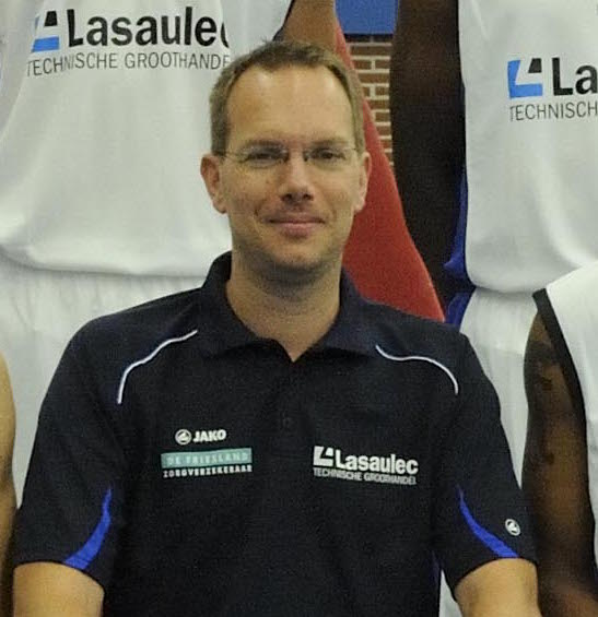 Dutch basketball coach Erik Braal in 2011.